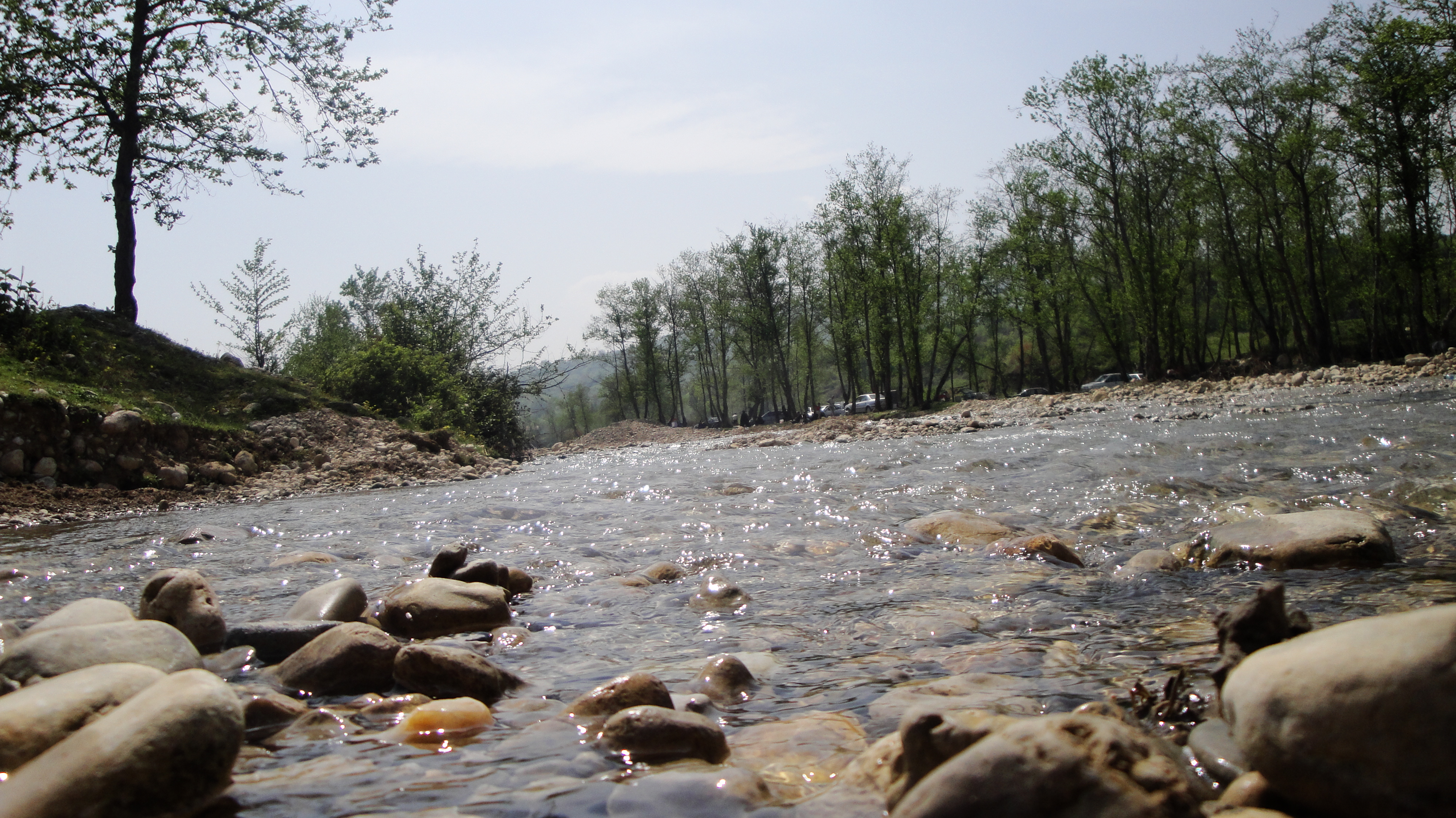 Baliran Jungle, Amol, Iran.